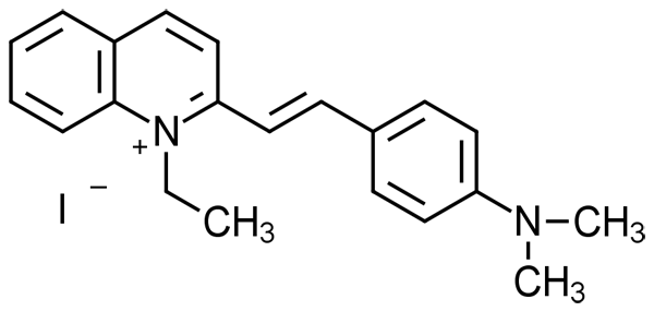 Lewis structure of Quinaldine Red